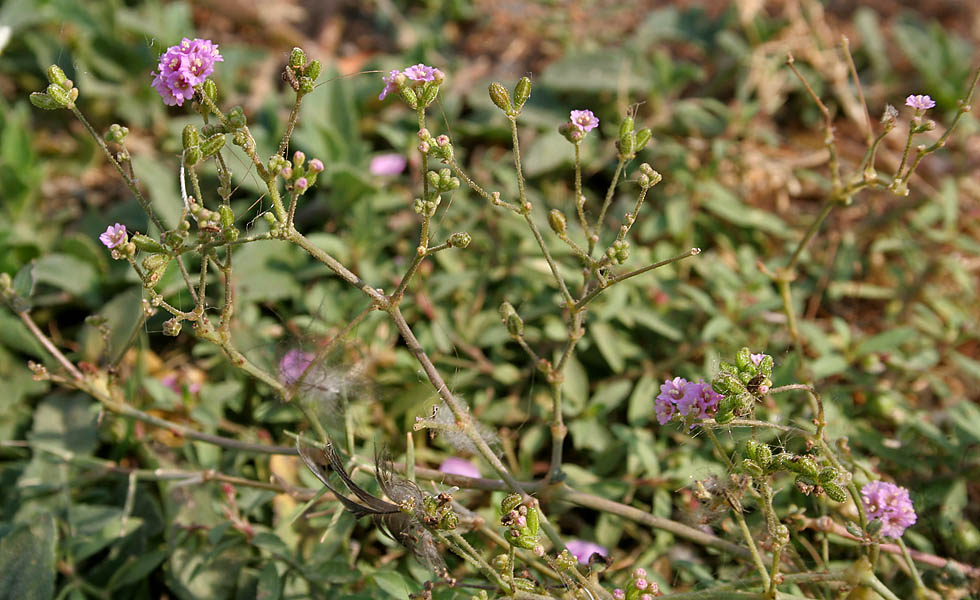 Boerhavia diffusa - Spreading Hogweed, Punarnava or Red spiderling in Amaravati, Andhra Pradesh, India.